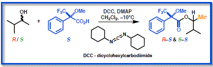 Moshr